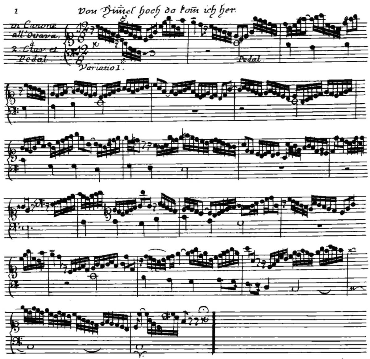 Title of title page engraved version of the Canonic Variations on the Christmas hymn "Vom Himmel hoch da komm' ich her", BWV 769, by J. S. Bach for organ with two manuals and pedals